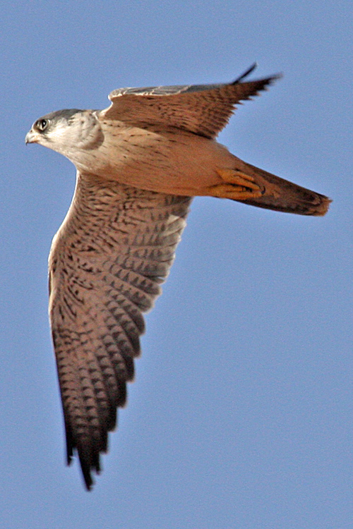 Grey Falcon in normal flight, Sturt Desert, New South Wales